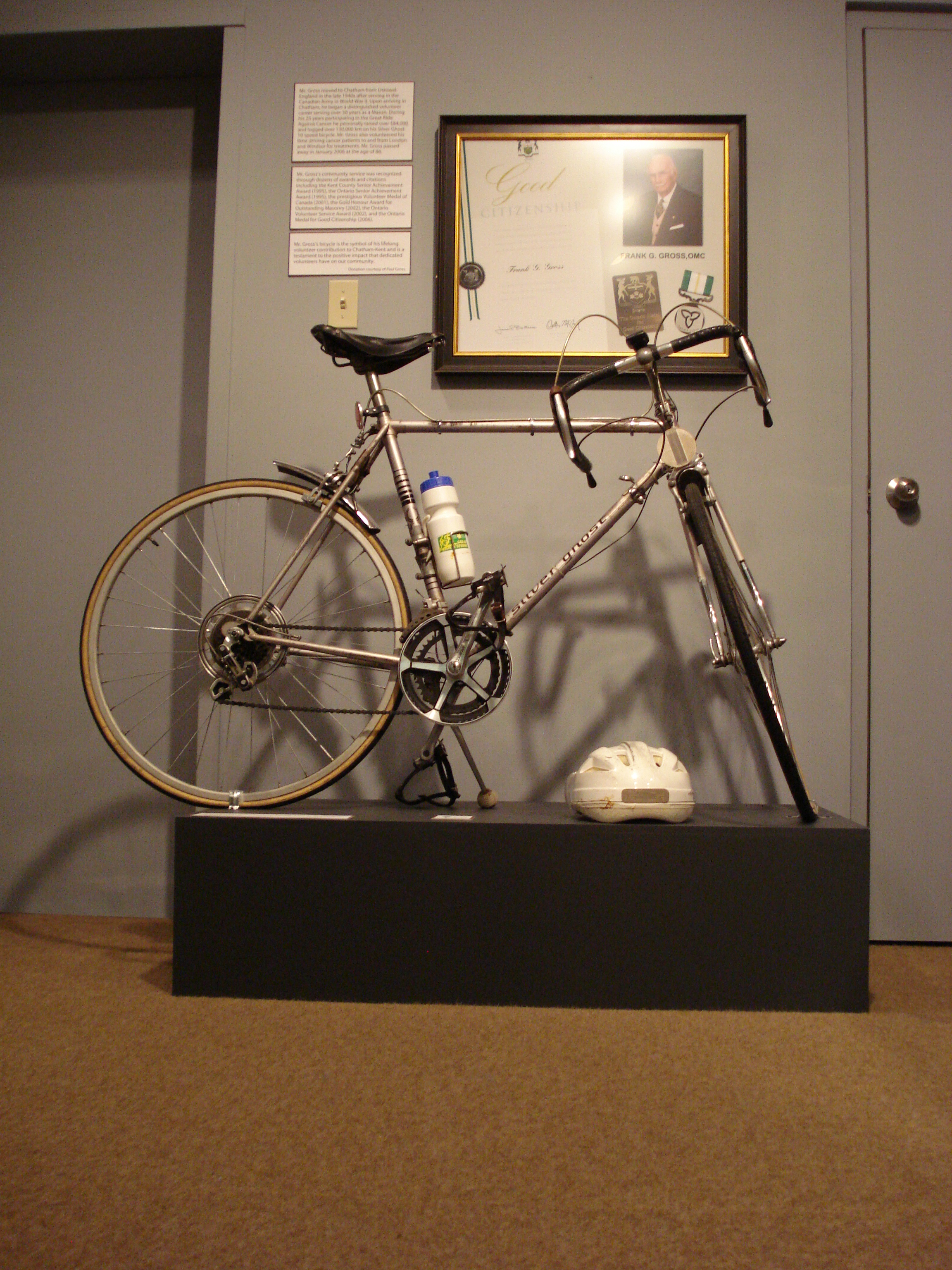 Ontario Medal of Good Citizenship awarded to Frank Gross